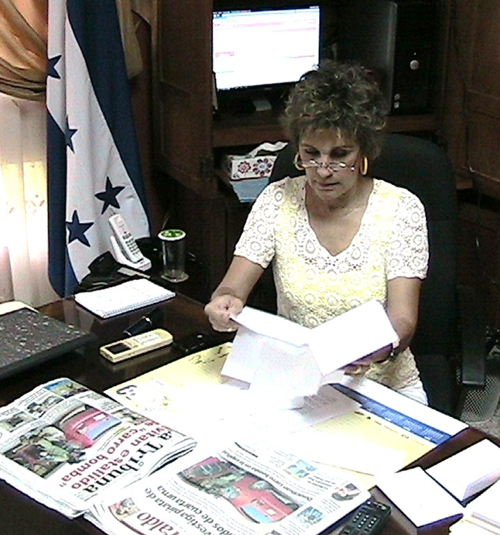 Maria Martha Diaz Velasquez in her office at the INAM